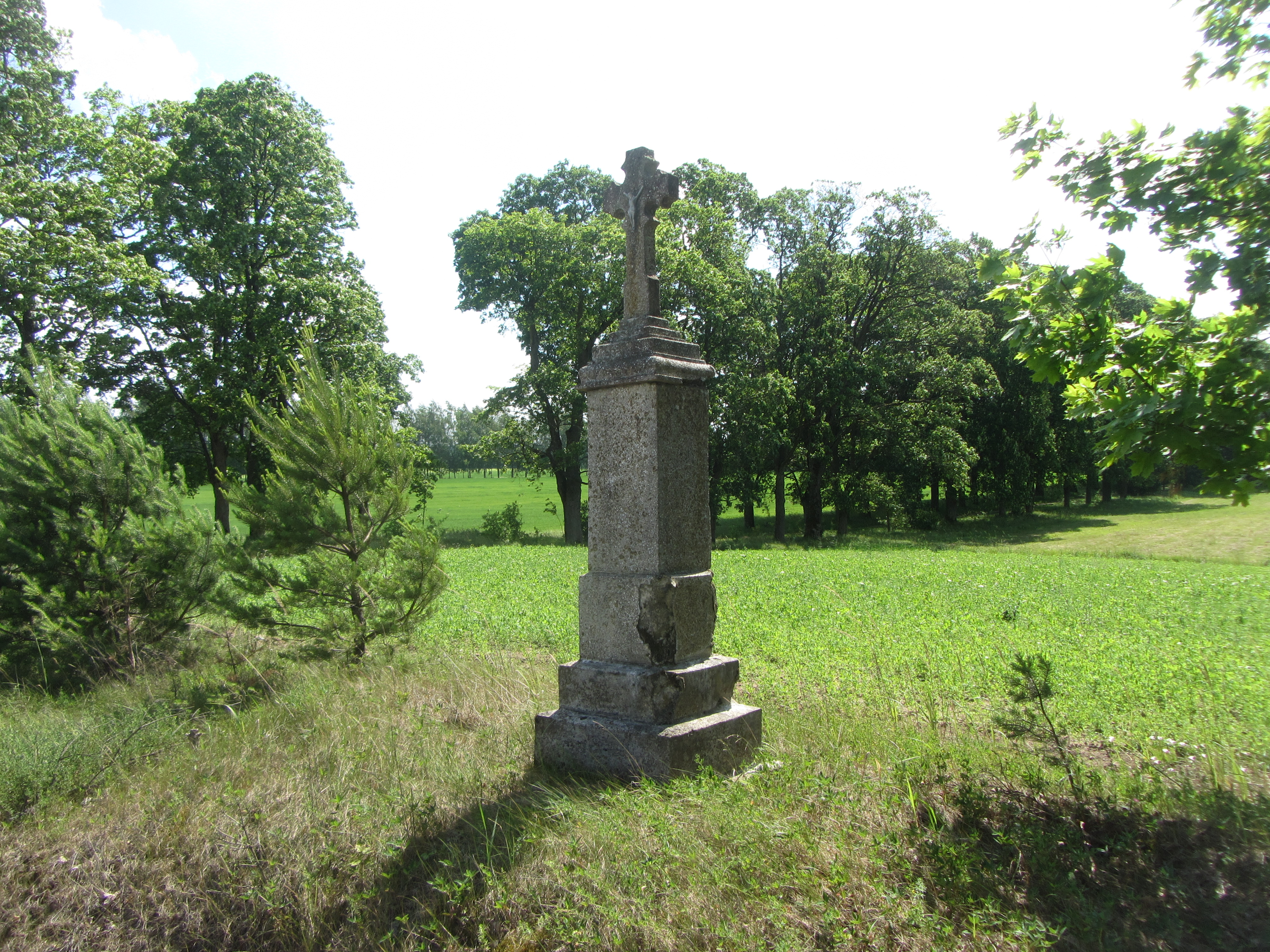 Birštono sen., Lithuania